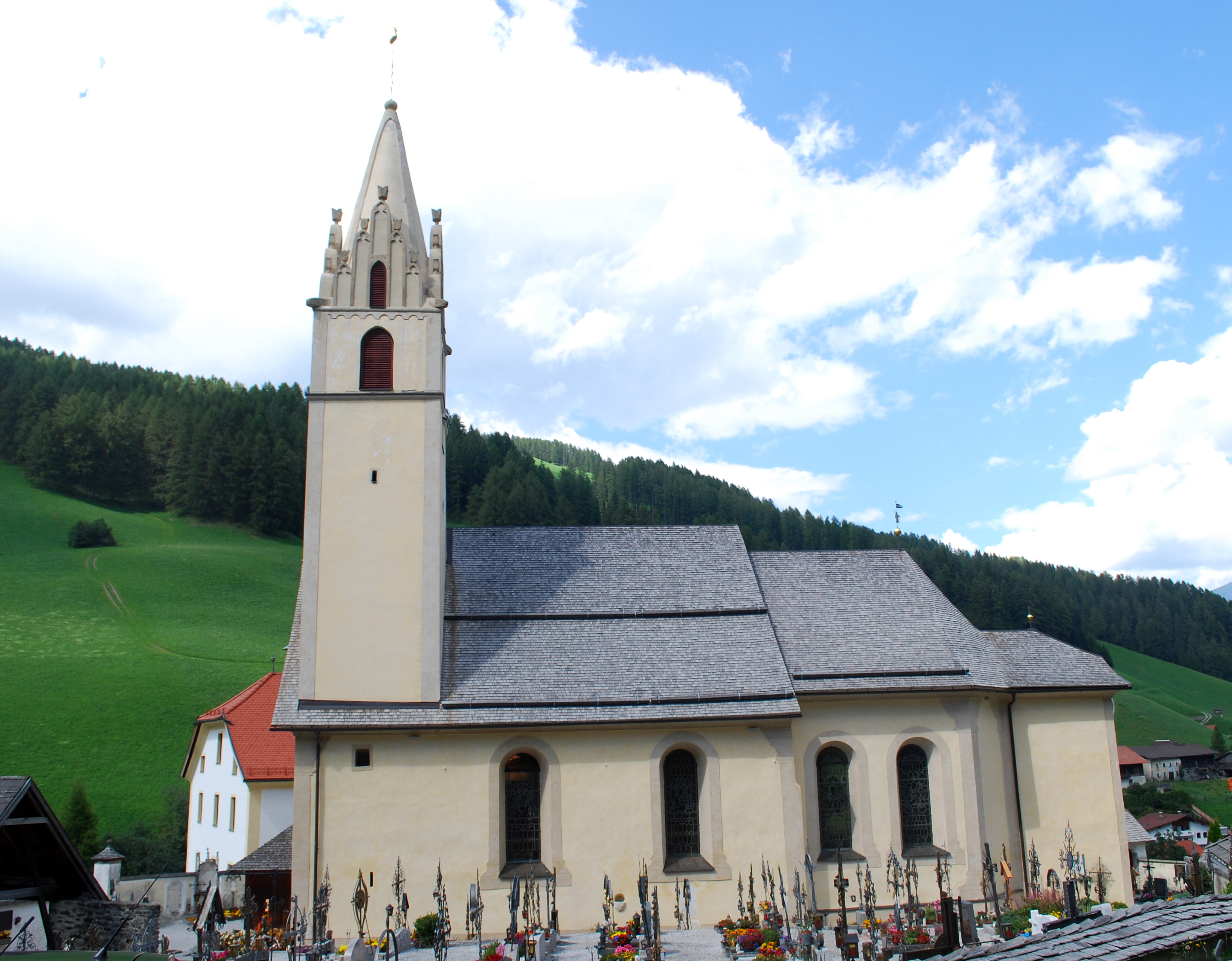 Church Vinaders